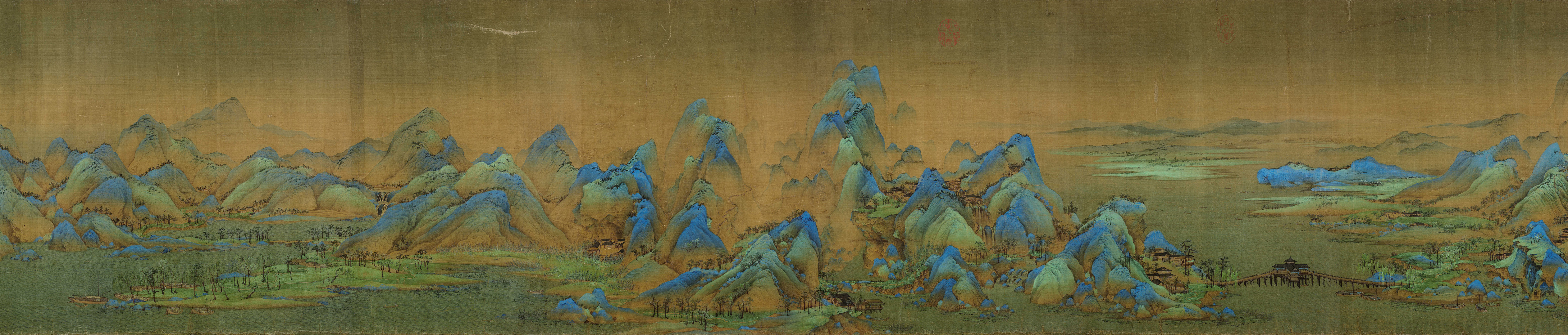 Detail from "A Thousand Li of River and Mountains" (千里江山) hand scroll in ink and color on silk. 11.91 meters x 55.8 cm. (3d part) Located in Palace Museum, Beijing.